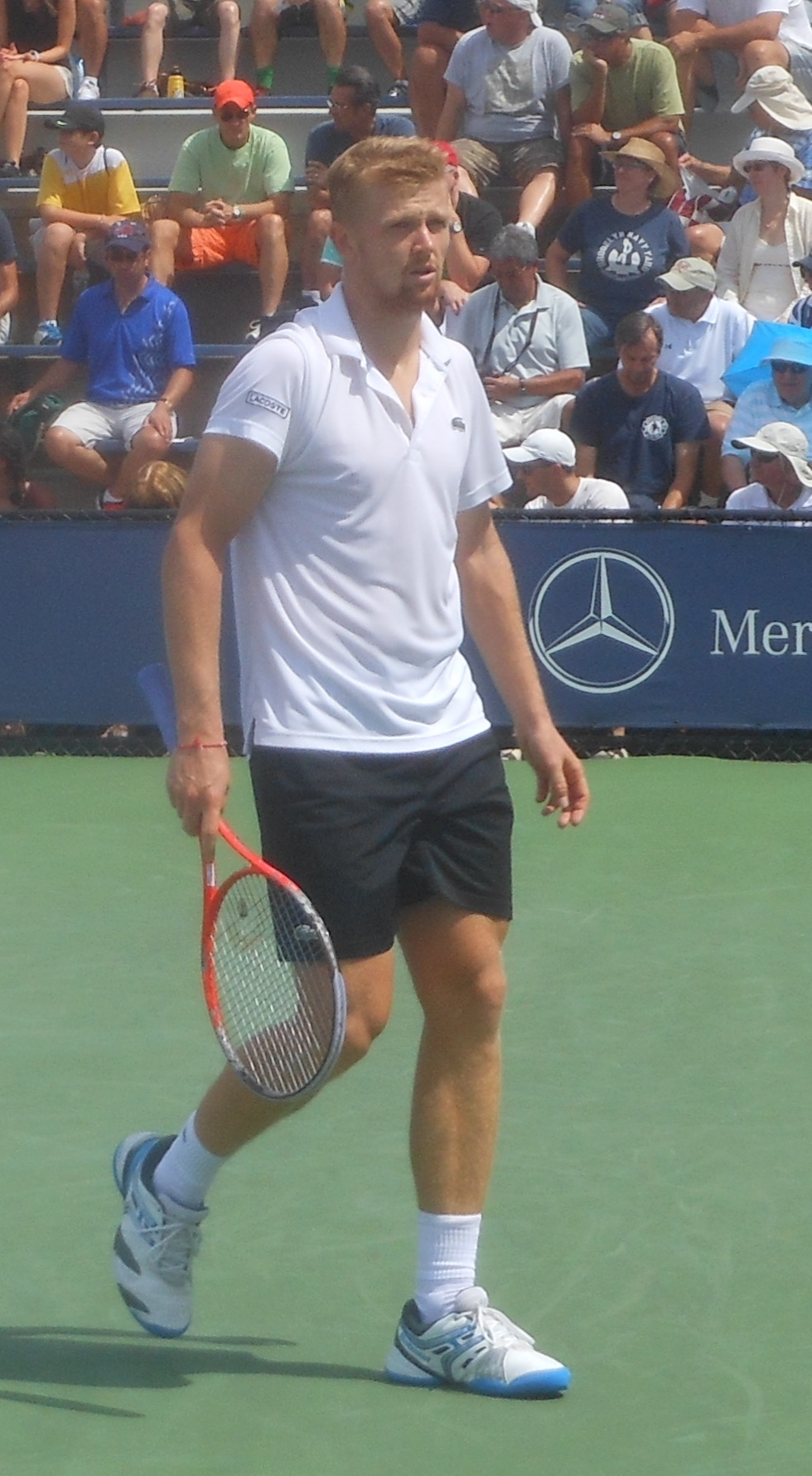 Andrey Golubev of Kazakhstan at 2013 US Open